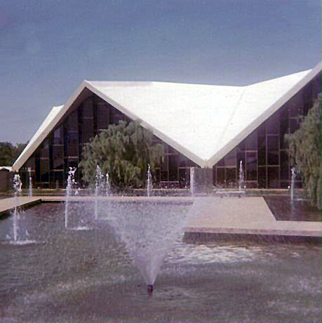 National Cowboy and Western Heritage Museum, Oklahoma, 1972 I took picture with Kodak camera.